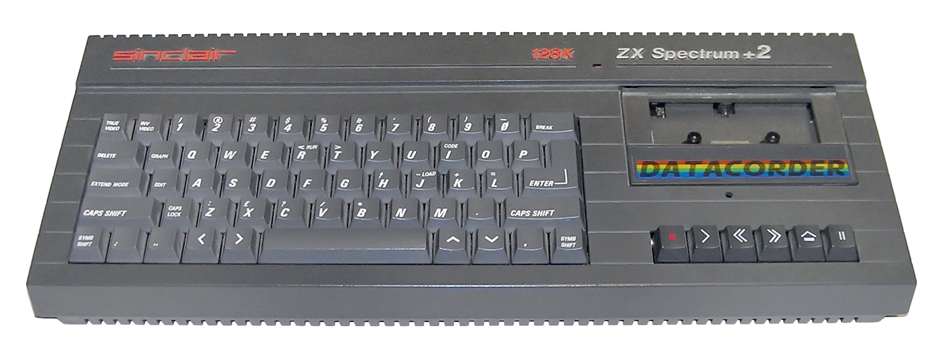 ZX Spectrum +2. (Retouched version of photograph by StuartBrady).